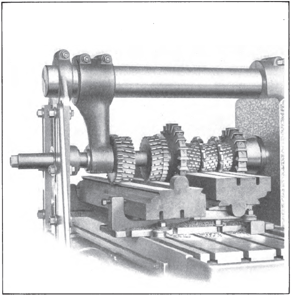 Page 138